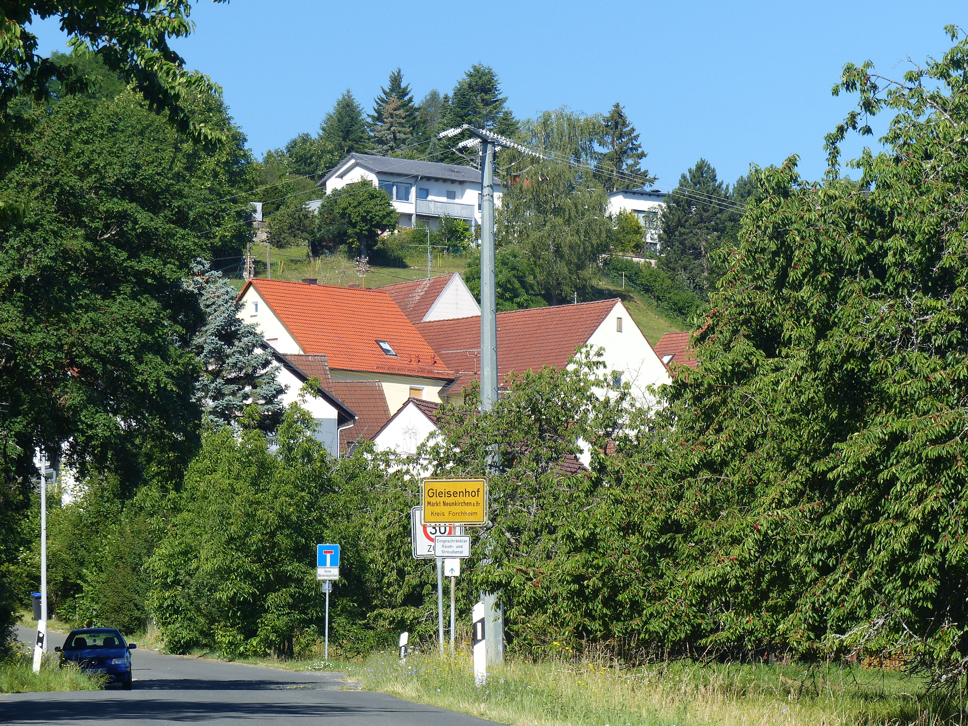 The village Gleisenhof, a district of the municipality of Neunkirchen am Brand